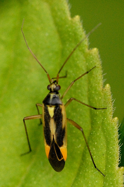 Stenotus binotatus from Commanster, Belgian High Ardennes .